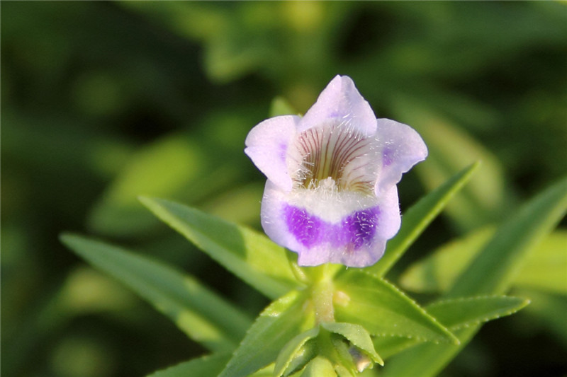 I have multi parted and submerged leavers, down to 50cm. I grow pale brown, subglobose capsules, about 2.5mm long. I usually grow in rice fields, brackish waters or low elevations in Chinese provinces like Anhui, Guangdong, Jiangxi and Taiwan.